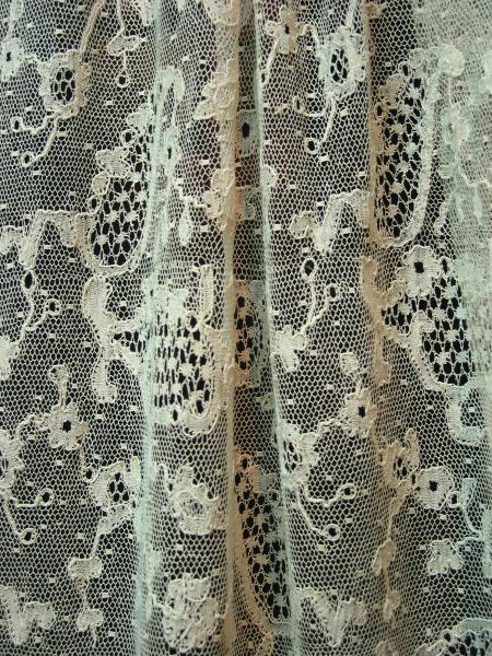 Aube made by ret fi or Arenys lace. This lace was maded by Casa Artigas at Arenys de Mar. This aube is the Marès Lace Museum in Arenys de Mar.